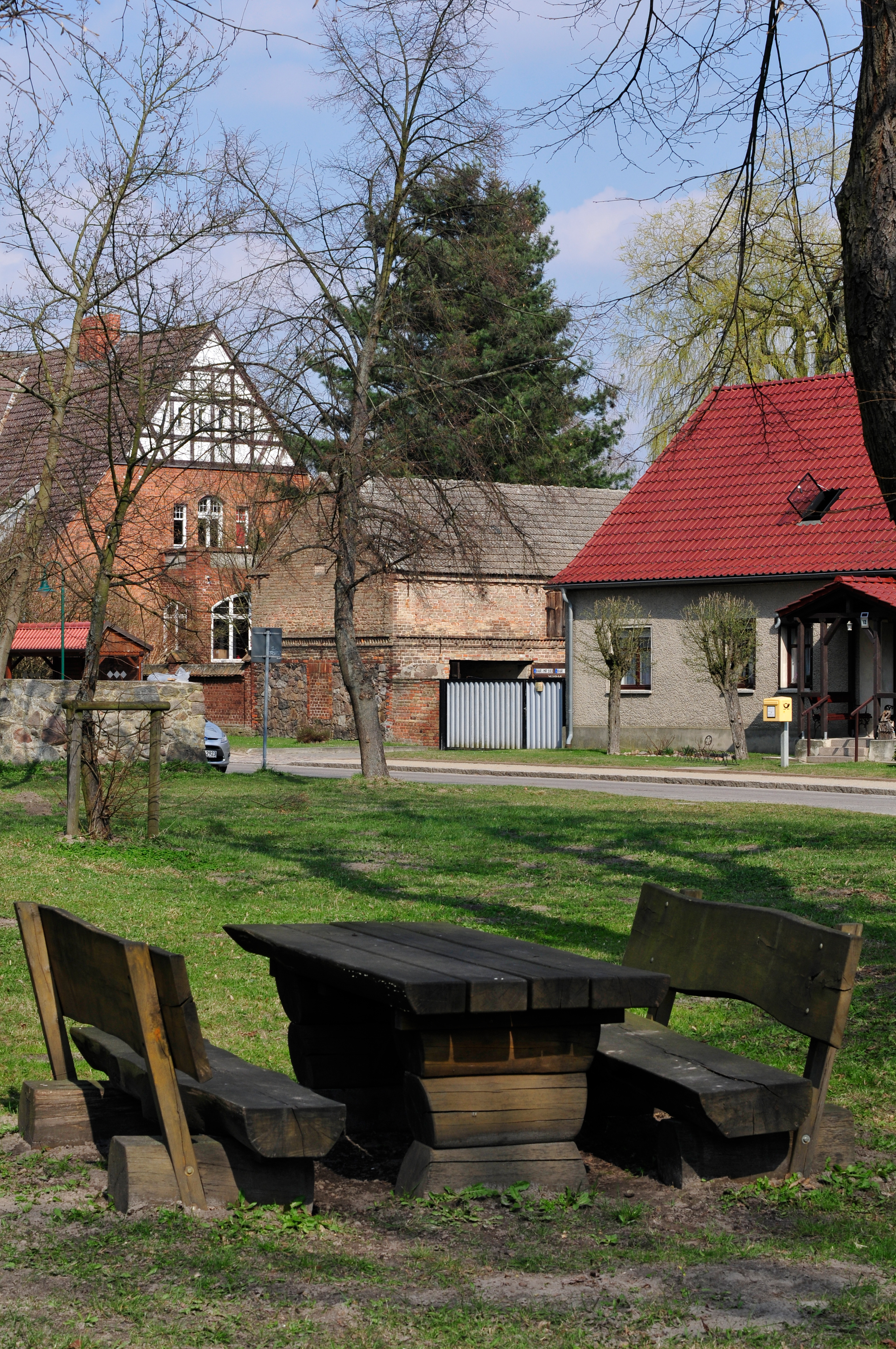 village Brodowin, Germany